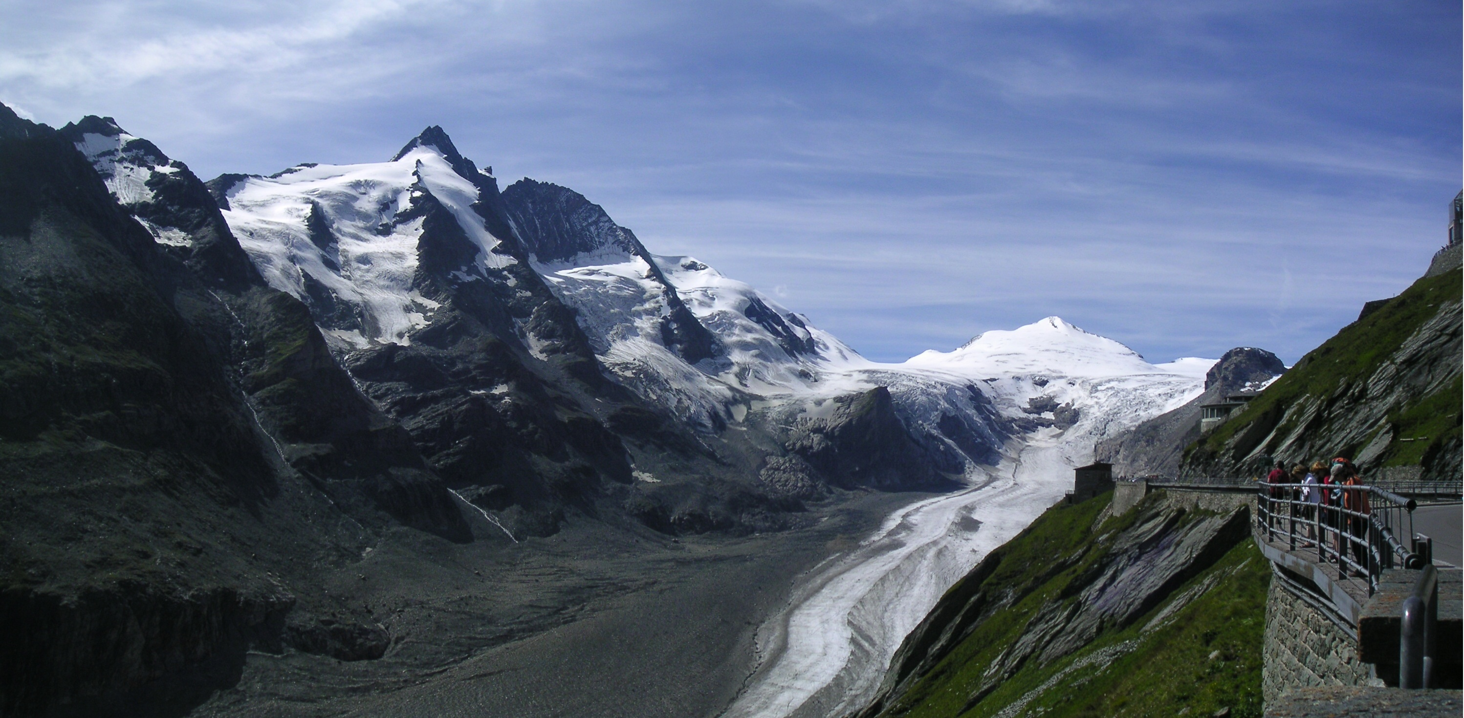 Grossglockner and Pasterze glacier viewed from Kaiser Josefs Hohe